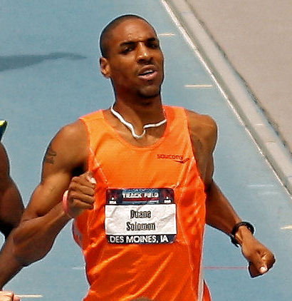 Duane Solomon cropped from 800m.